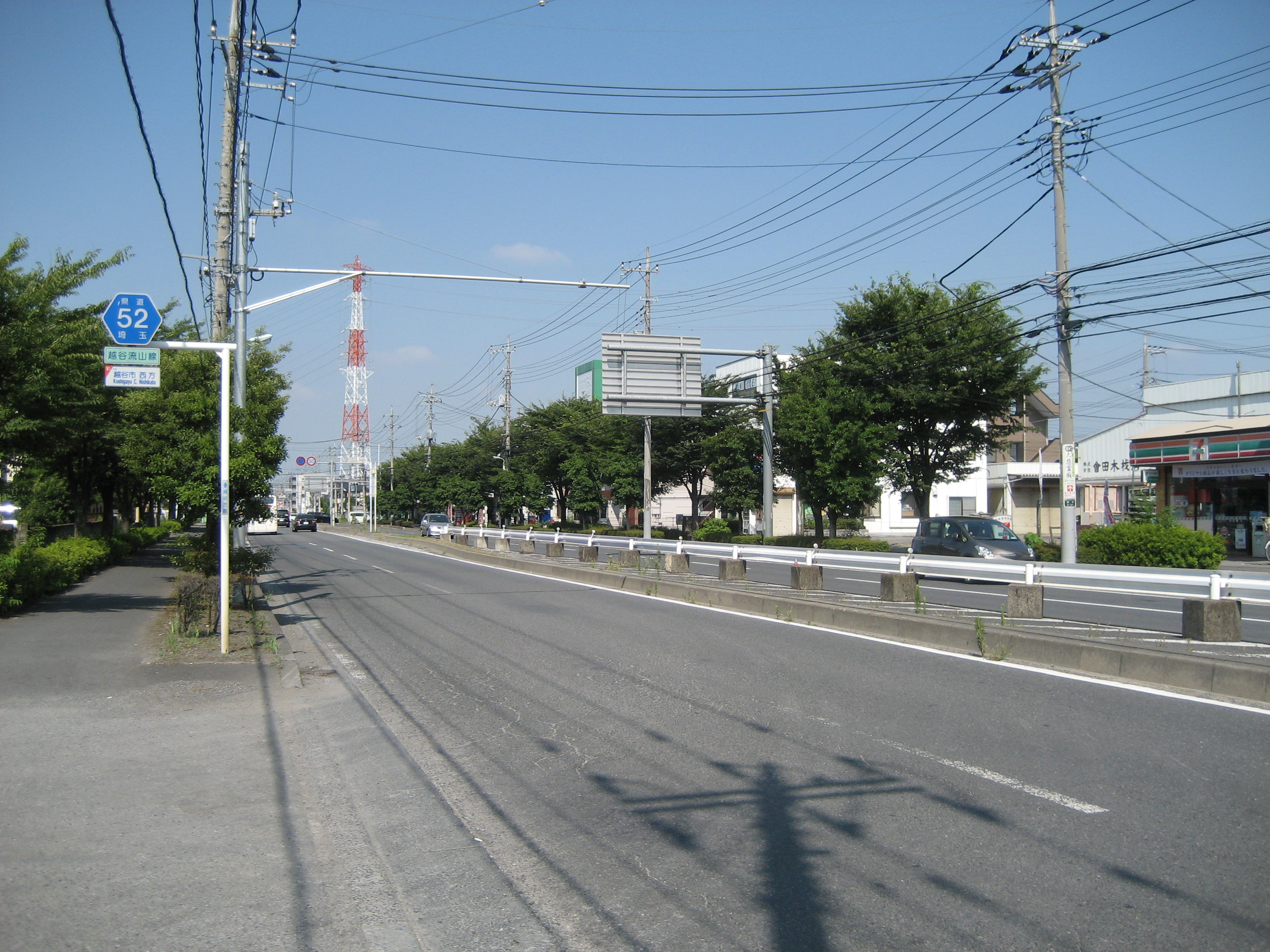 The Saitama Prefectural Road Route 52 in Nishikata, Koshigaya City